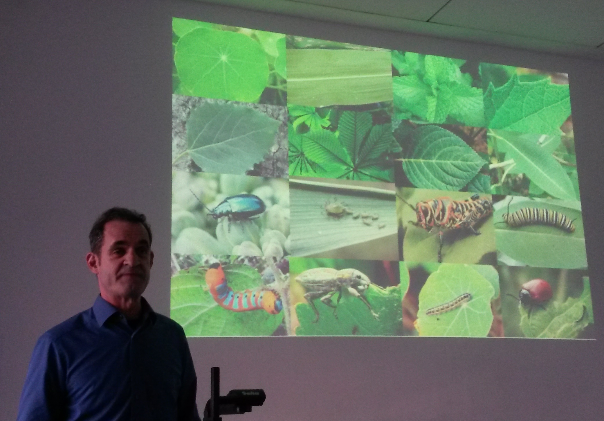 Professor Jonathan Gershenzon lecturing in Jena in March 2015